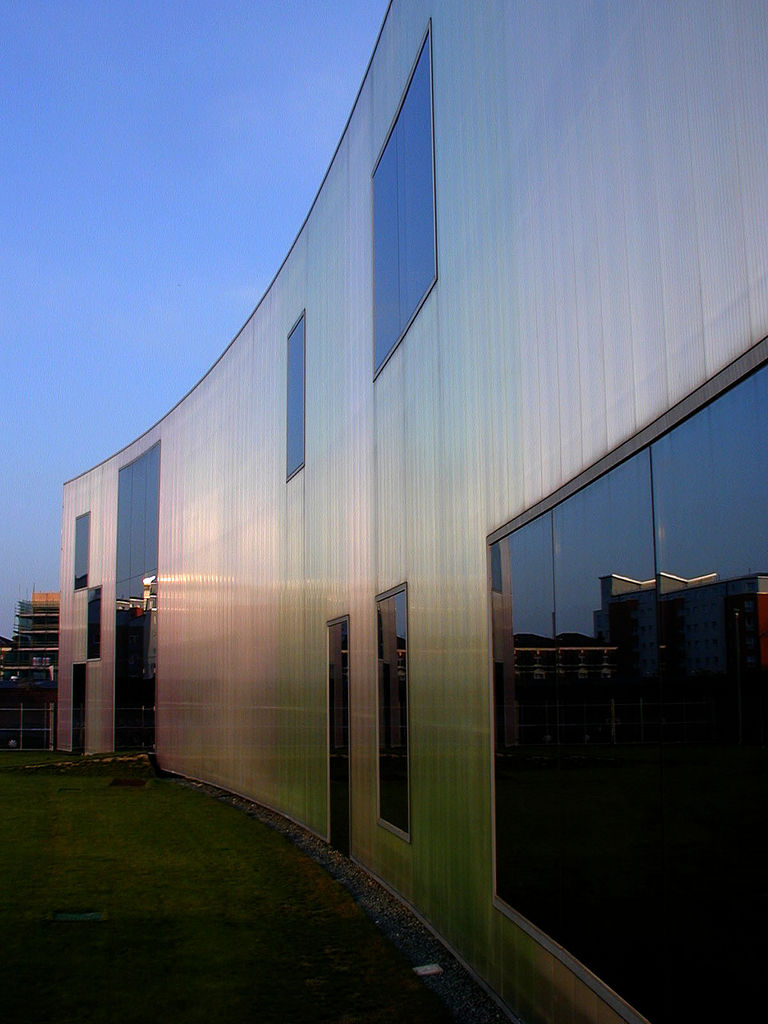 Laban Dance Center, Designed by Architect Herzog & de Meuron.